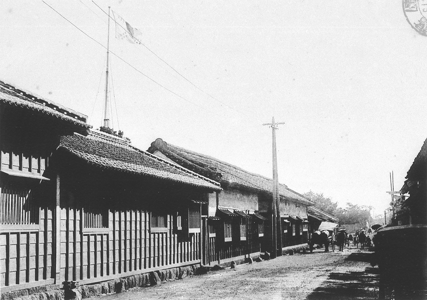 Korian Legation, Nakarokuban-cho, Kojimachi-ku (Present: Yonban-cho, Chiyoda-ku), Tokyo Japan